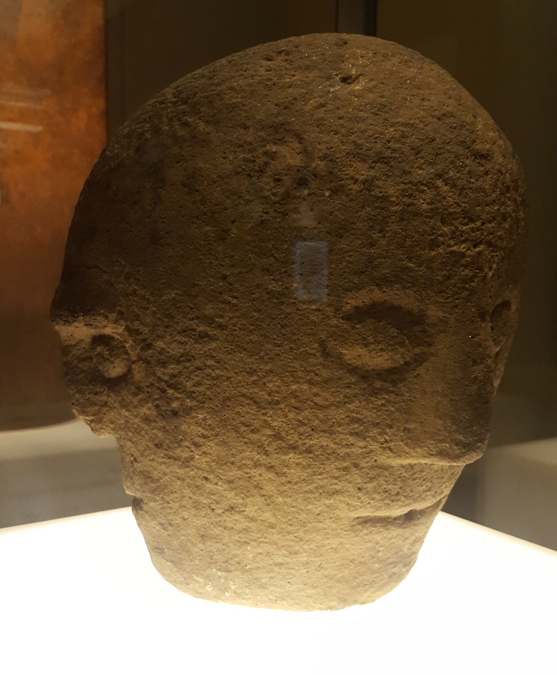 Three-sided Corleck Head from Drumeague, Co. Cavan, dated 1st - 2nd century AD.